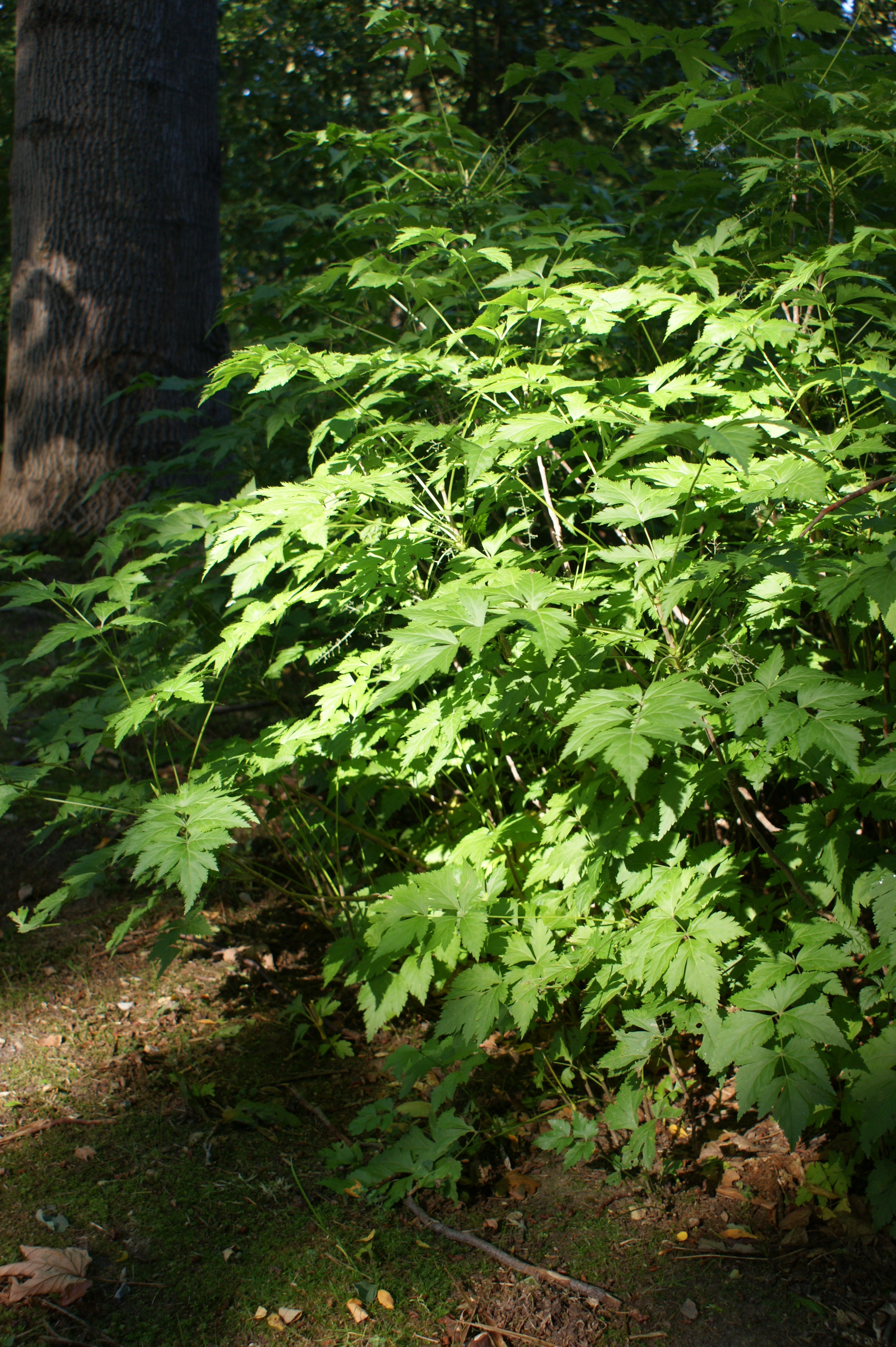 Xanthorhiza simplicissima in Arboretum in Glinna (NW Poland)